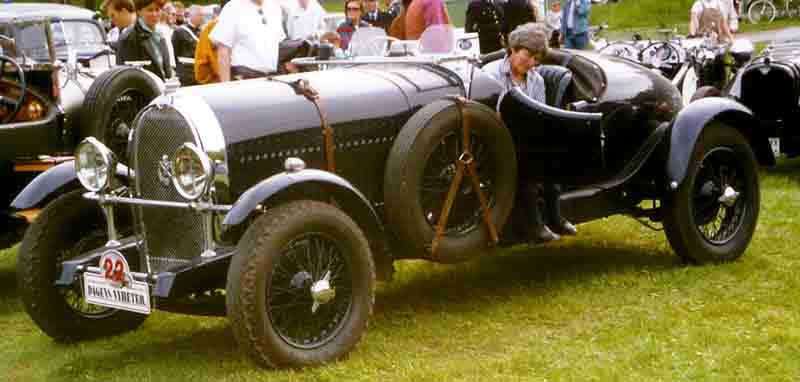 Hotchkiss 2-Seater Sports 1931